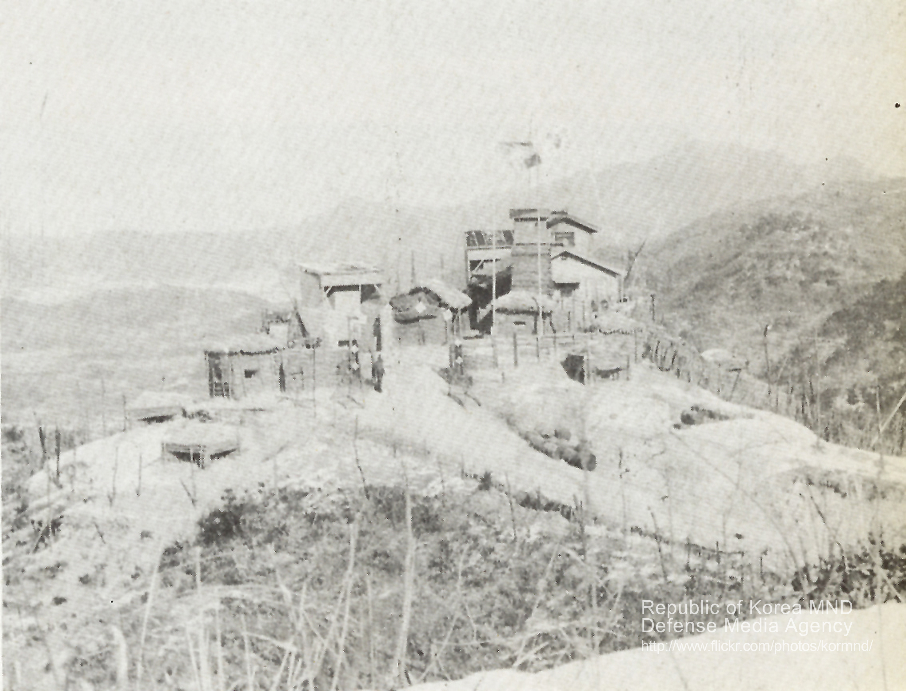 2008 국방화보 Rep. of Korea, Defense Photo Magazine A Guard Post (GP) along the DMZ in 1960s and 1970s